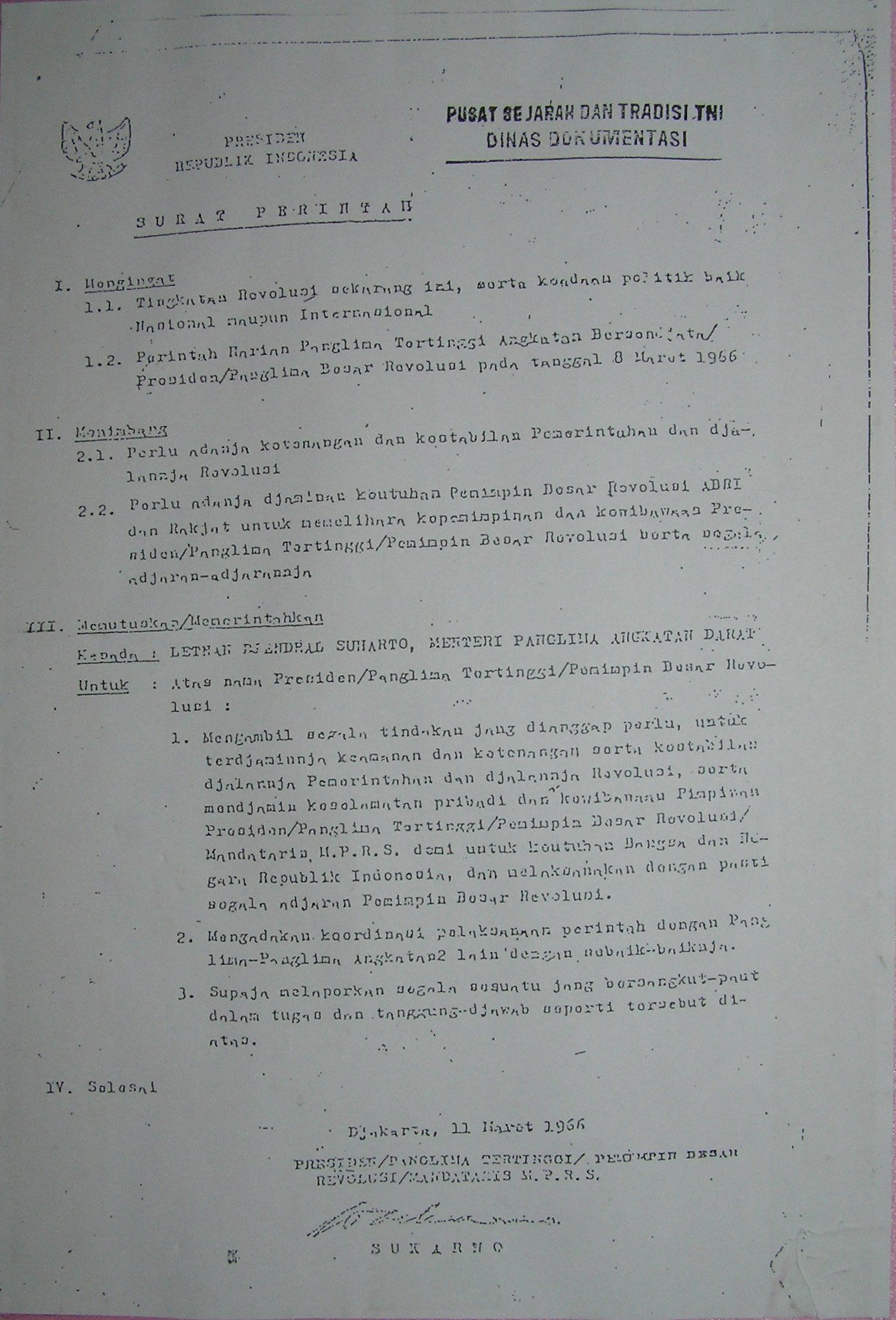 The Supersemar document transferring the authority to restore security to Suharto in 1966